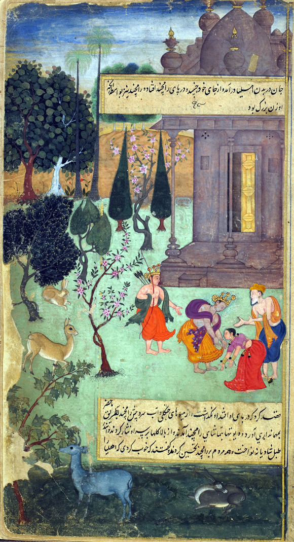 "Folio from the Ramayana of Valmiki (The Freer Ramayana), Vol. 1, folio 50; recto: Ahalya falls at Rama's feet in gratitude for her liberation from Guatama's curse"